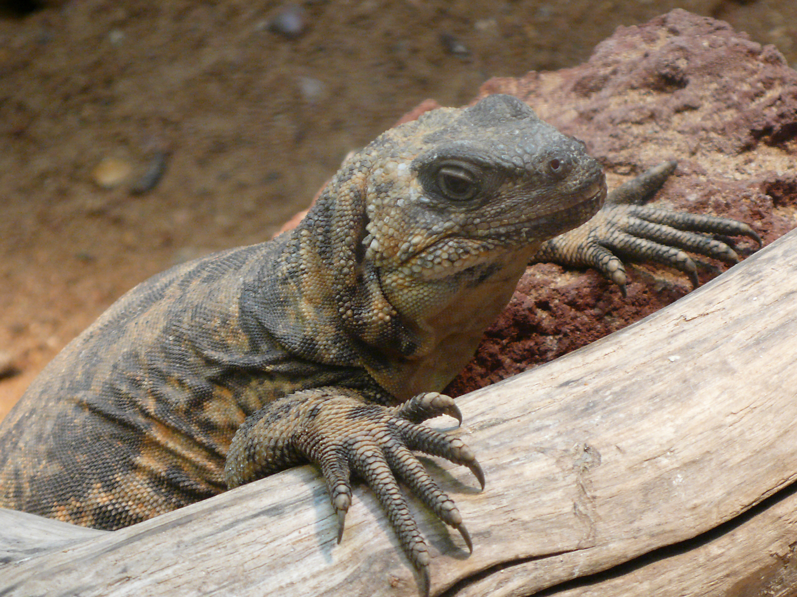 San Esteban chuckwalla (Sauromalus varius)